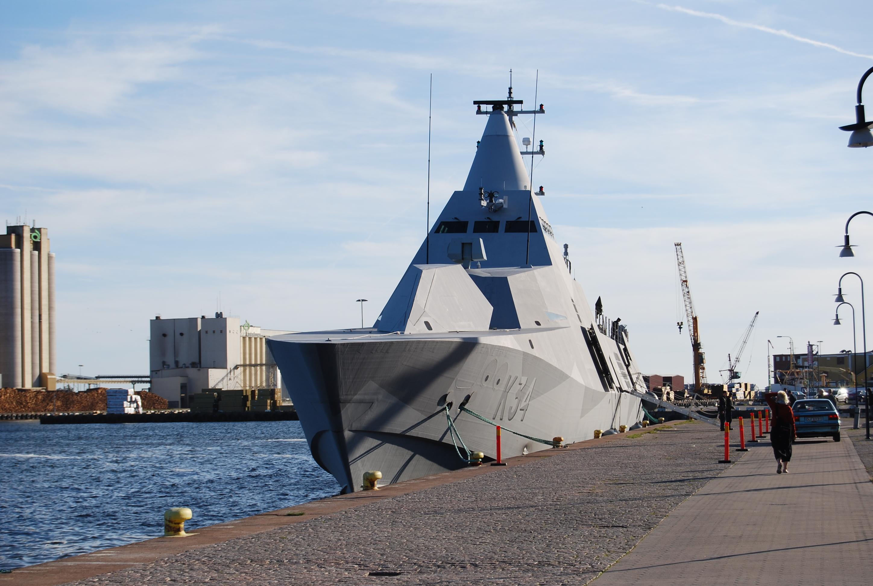 The Swedish corvette of the Visby class HMS Nyköping (K34).